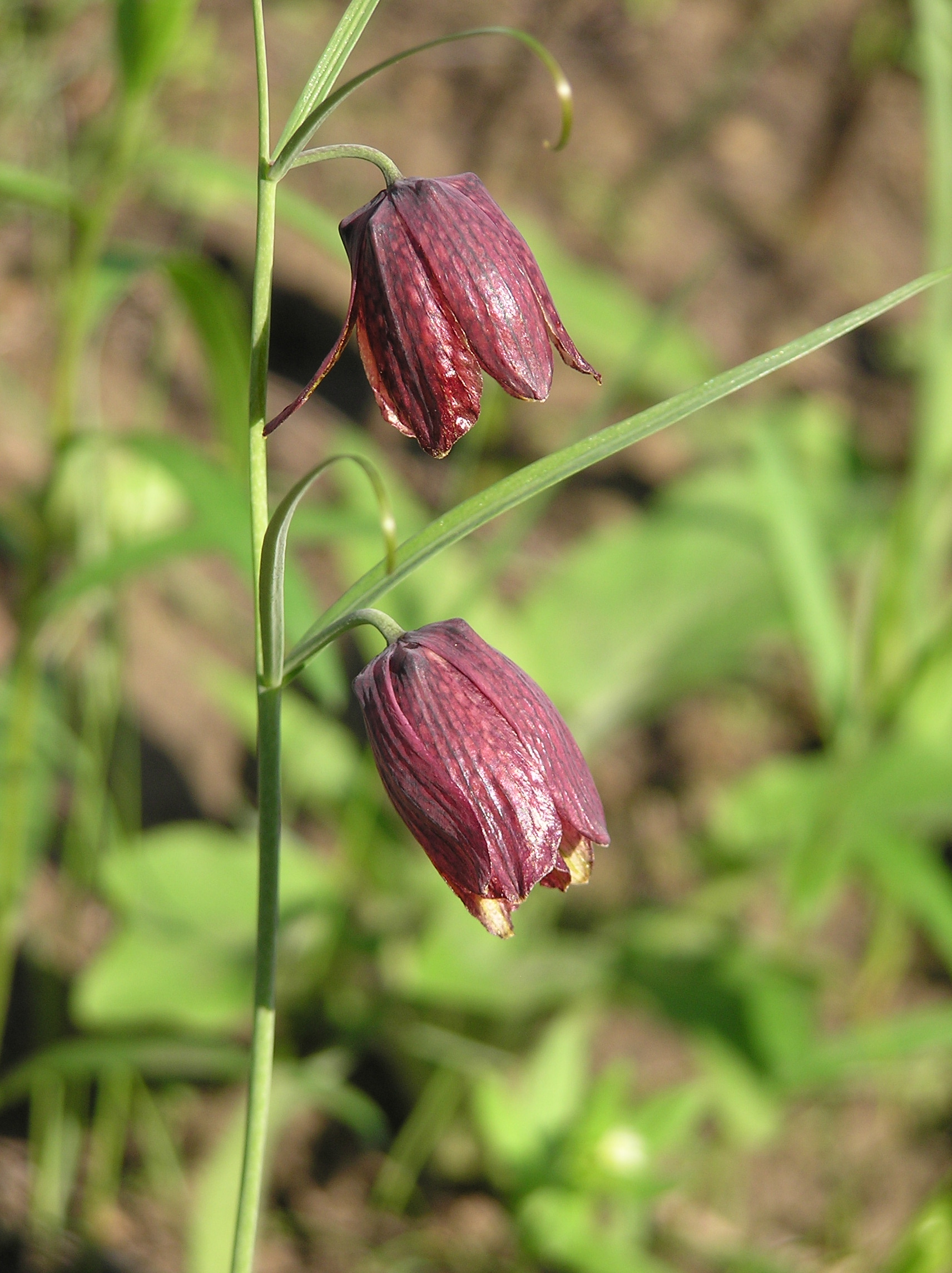 Fritillaria ruthenica Wikstr., flowers. Habitat: sparce oak forest. Vicinity of Saratov city, Russia.